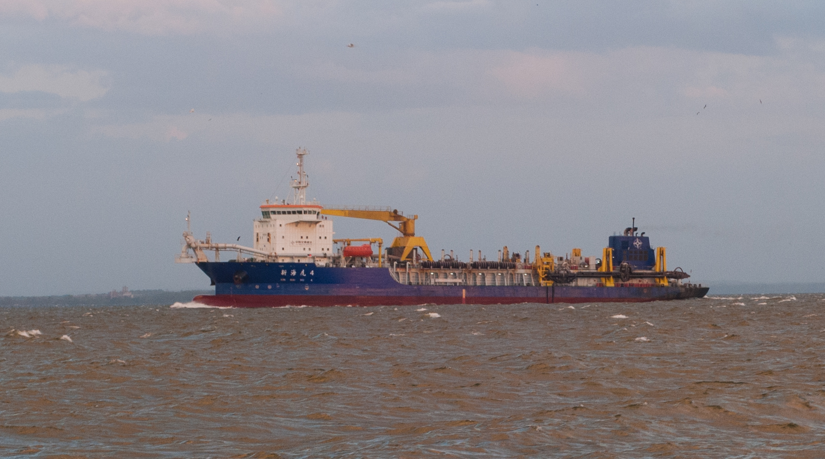 Chinese ship